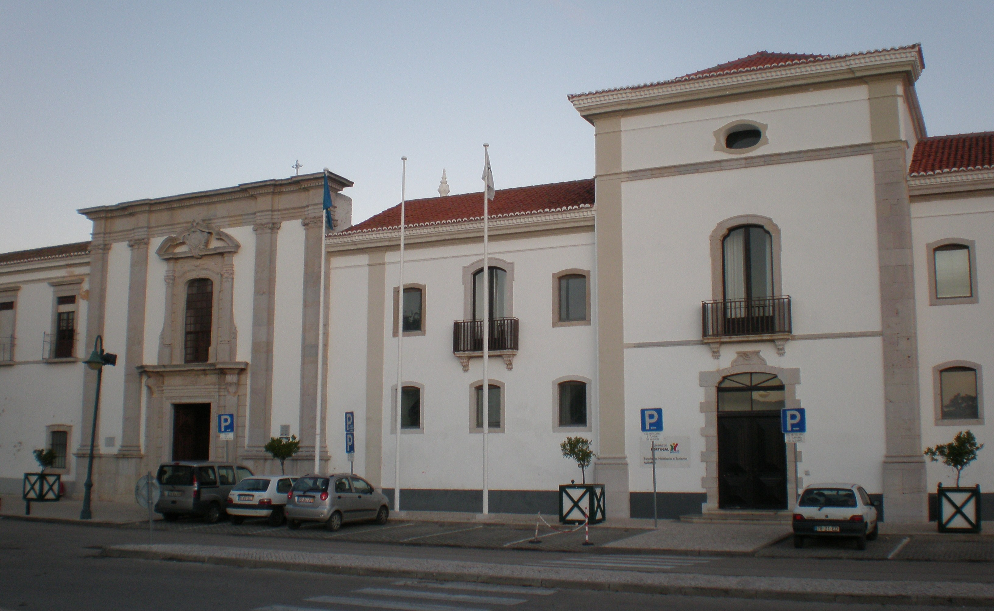 Saint Francis Church and Convent, Faro, Portugal